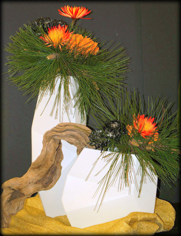 13. Double Hashibana Uate created live by Ric Bansho Carrasco in 2008 during the annual exhibition and demonstrations of Ikebana International St. Petersburg Chapter #65. Floral materials were orange and black Chrysanthemums with trimmed long needled pine as line materials. Driftwood from Alaska, and vintage gold silk brocade from Tokyo, Japan. Tall and narrow porcelain uate containers are from Z Gallery.